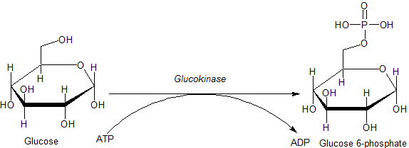 Action of glucokinase on glucose